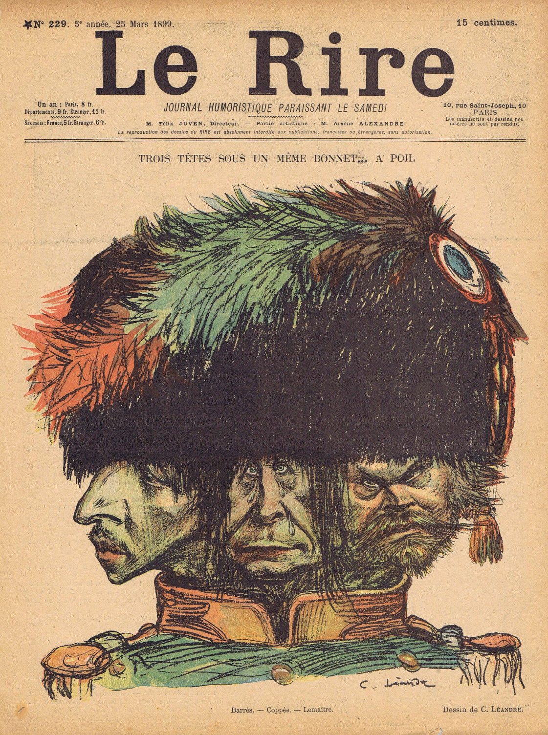 Cover of Le Rire 1899 no229. The three heads of the Ligue de la patrie française: Maurice Barrès,François Coppée and Jules Lemaître.